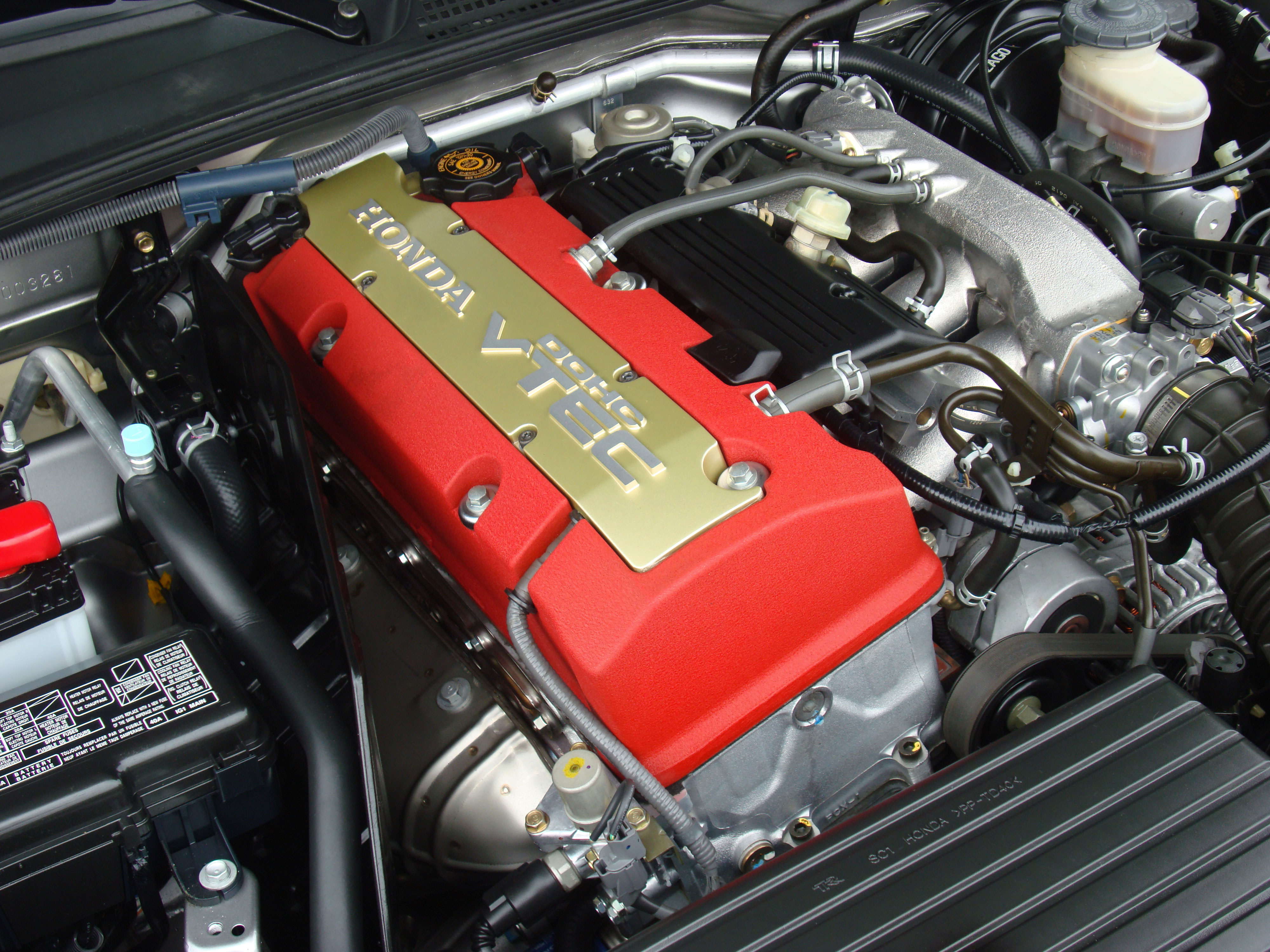 Honda F22C1 engine from a 2005 Honda S2000. Camera used was a Sony Ericsson DSC-W200.